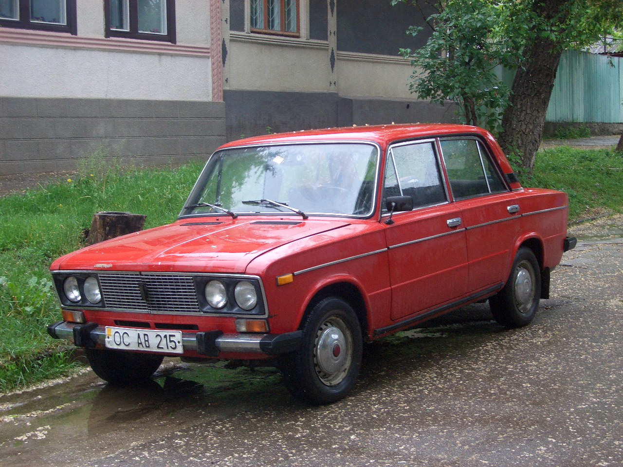 Lada after the rain in Chisinau, Moldova